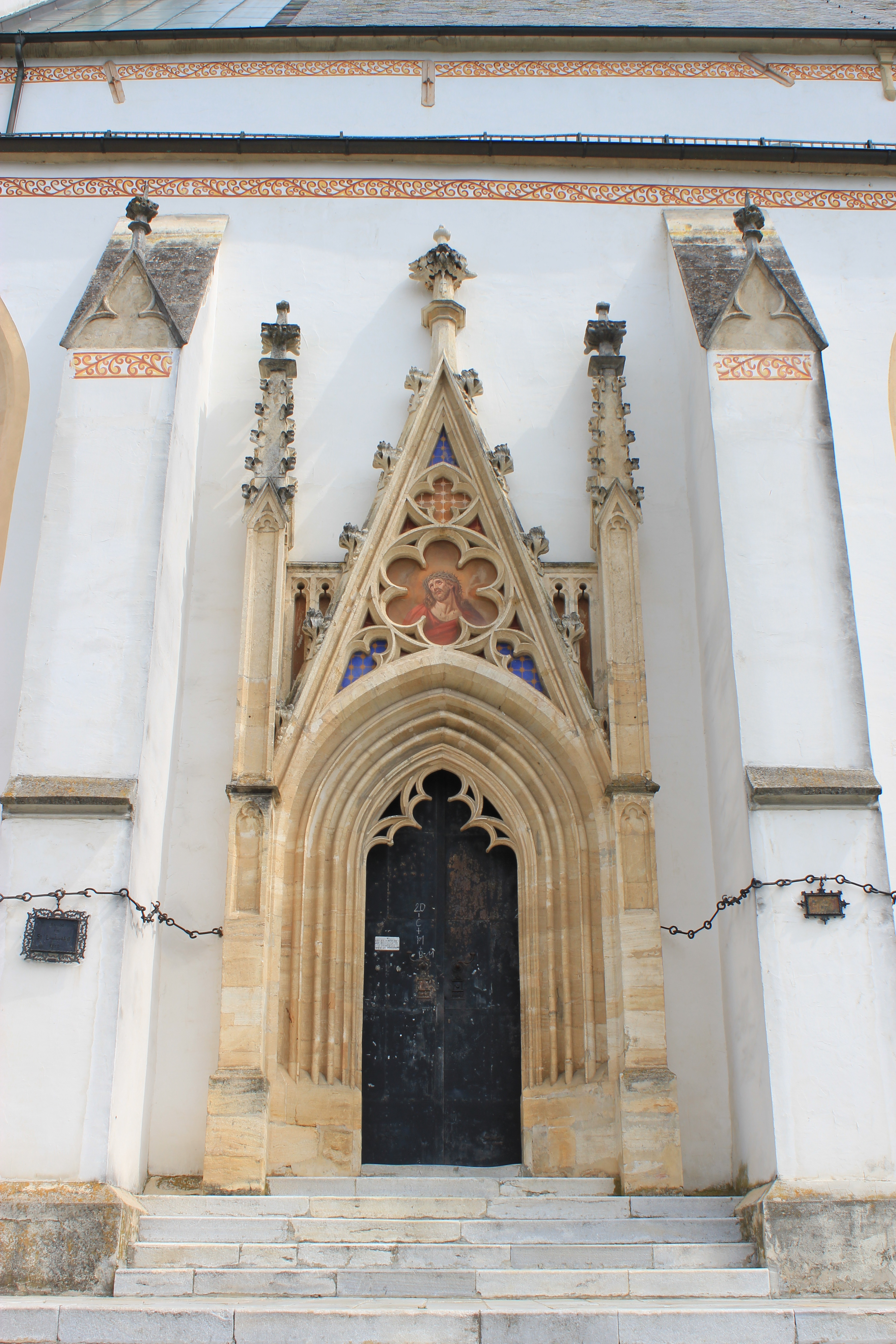 Parish church in Bad Sankt Leonhard - detail